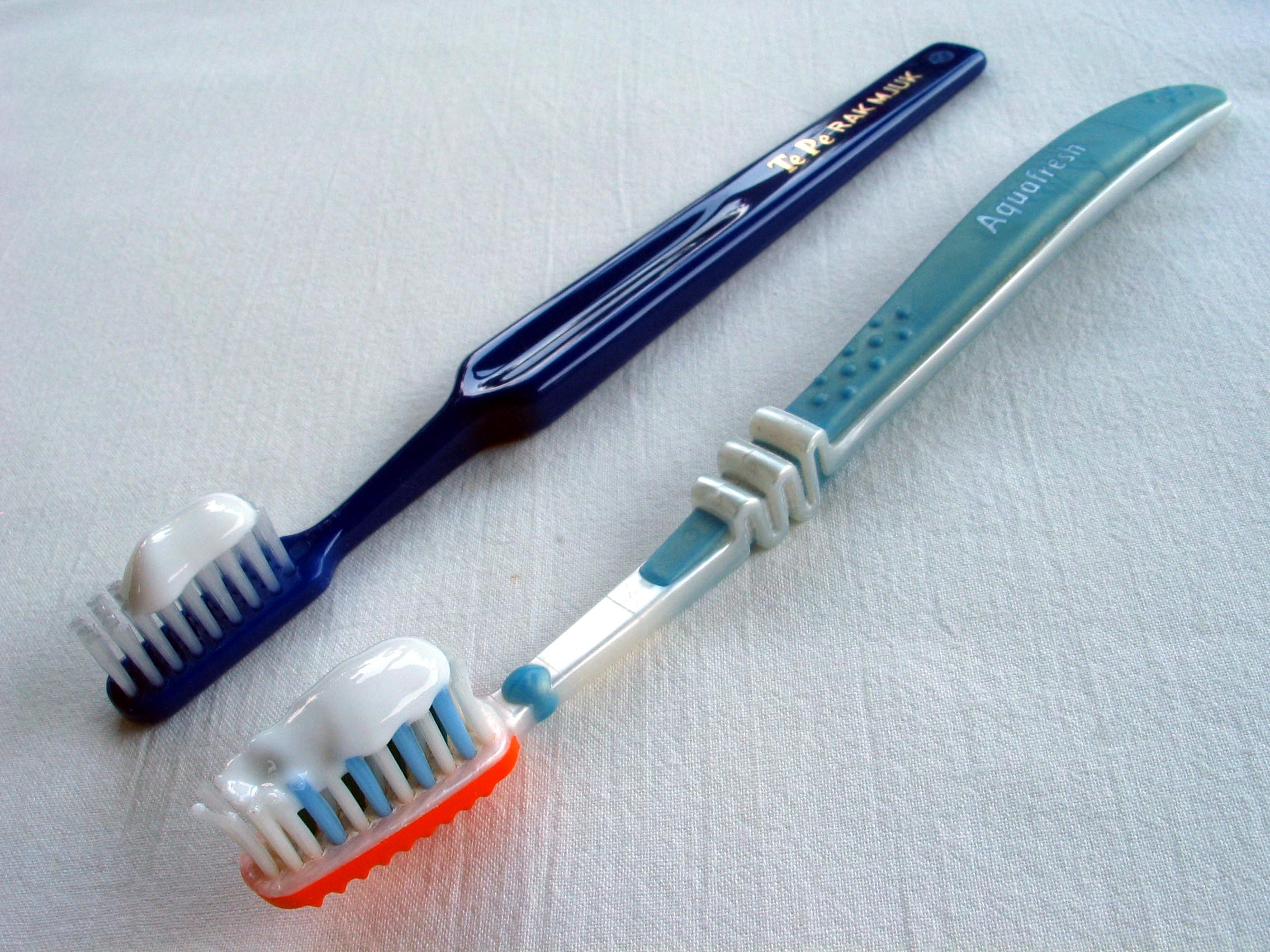 Two toothbrushes, photo taken in Sweden.